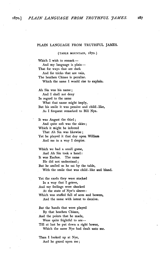 First appearance of the satirical poem "Plain Language from Truthful James" (also known as "The Heathen Chinee") by American author F. Bret Harte, as published in the Overland Monthly, September 1870. Scan courtesy of Making of America project, University of Michigan. Converted to grayscale, minor markings removed.